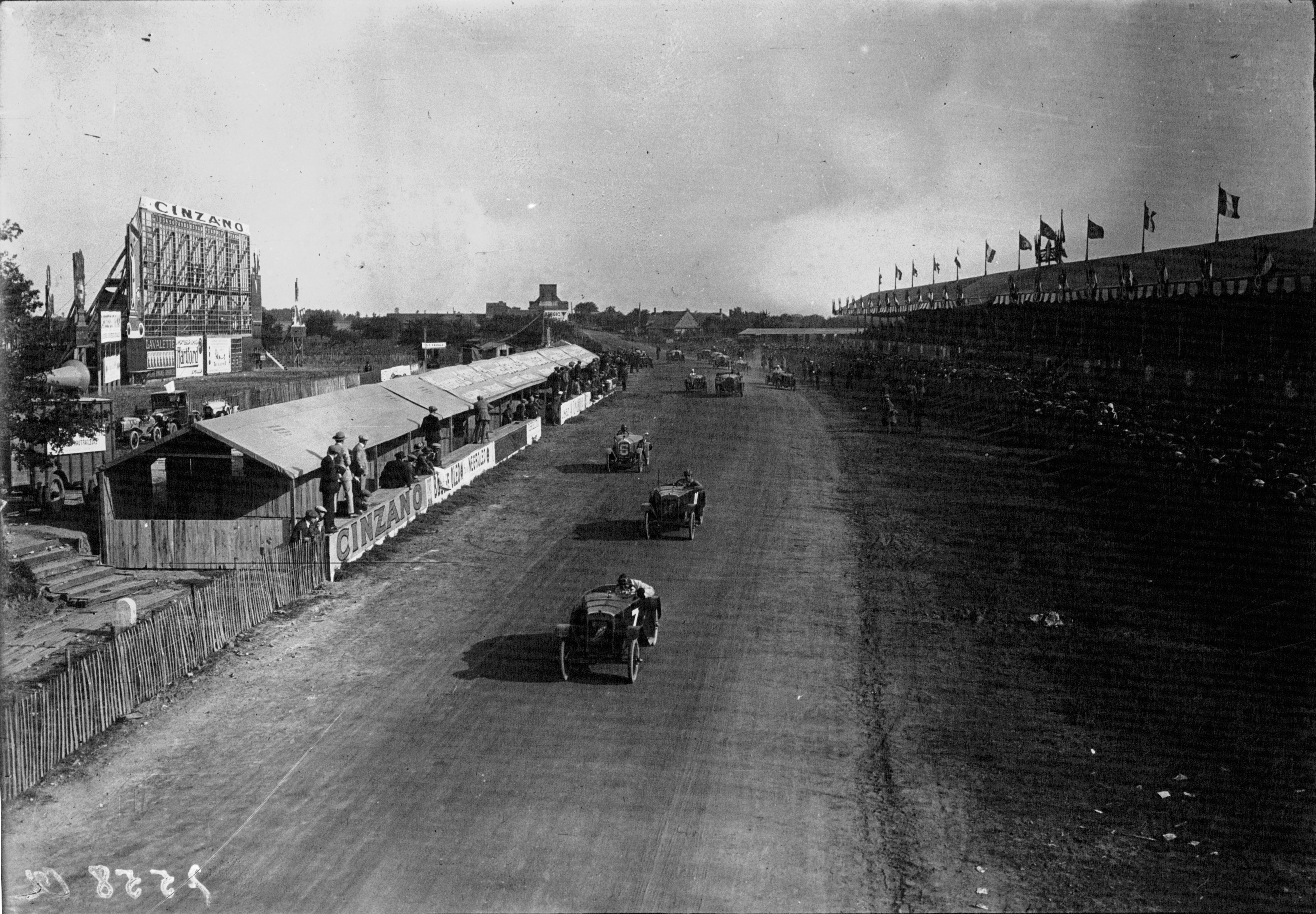 Start of the 1923 French Grand Prix at Tours.